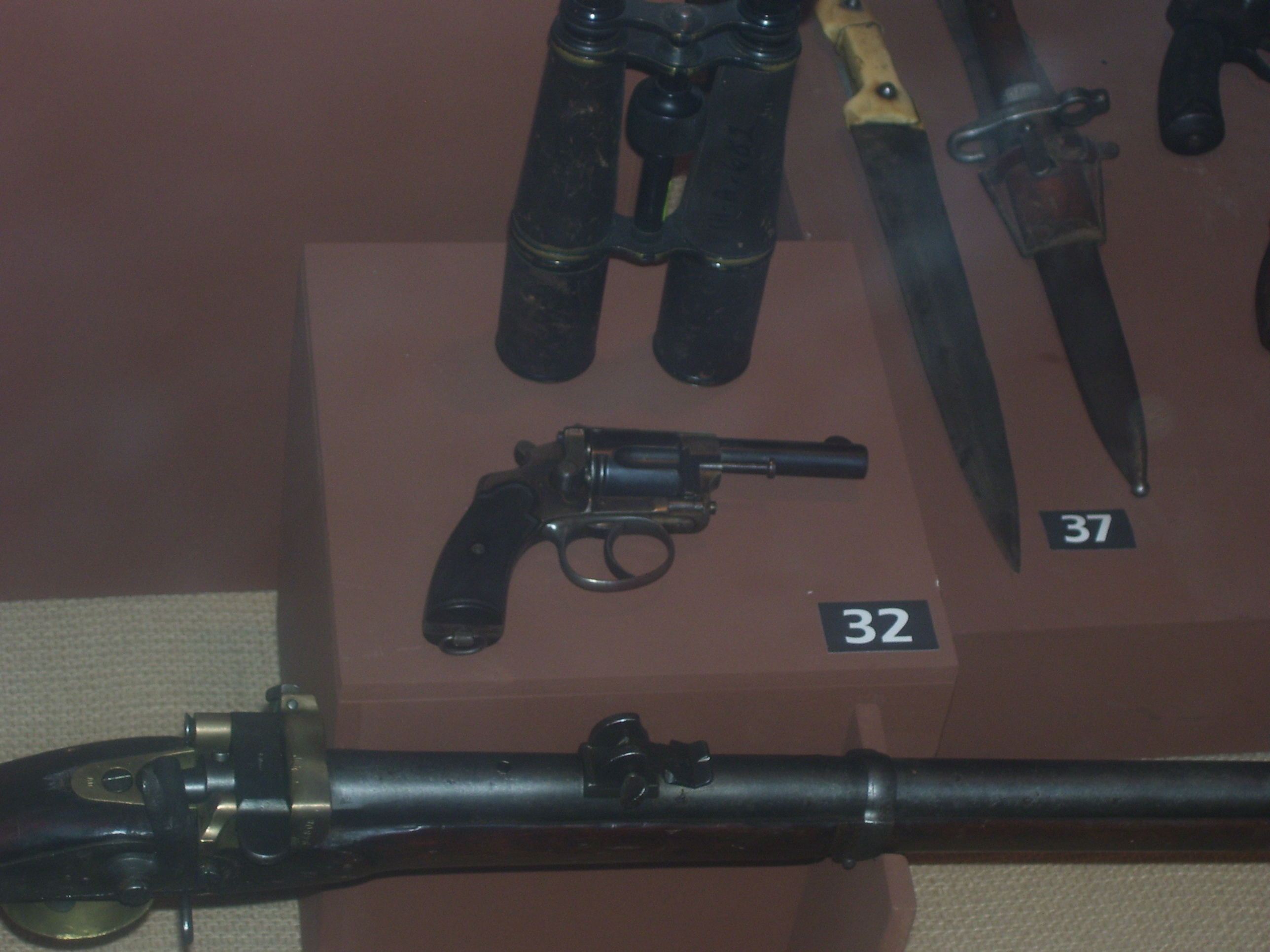 Boris Sarafov's Revolver and Binoculars